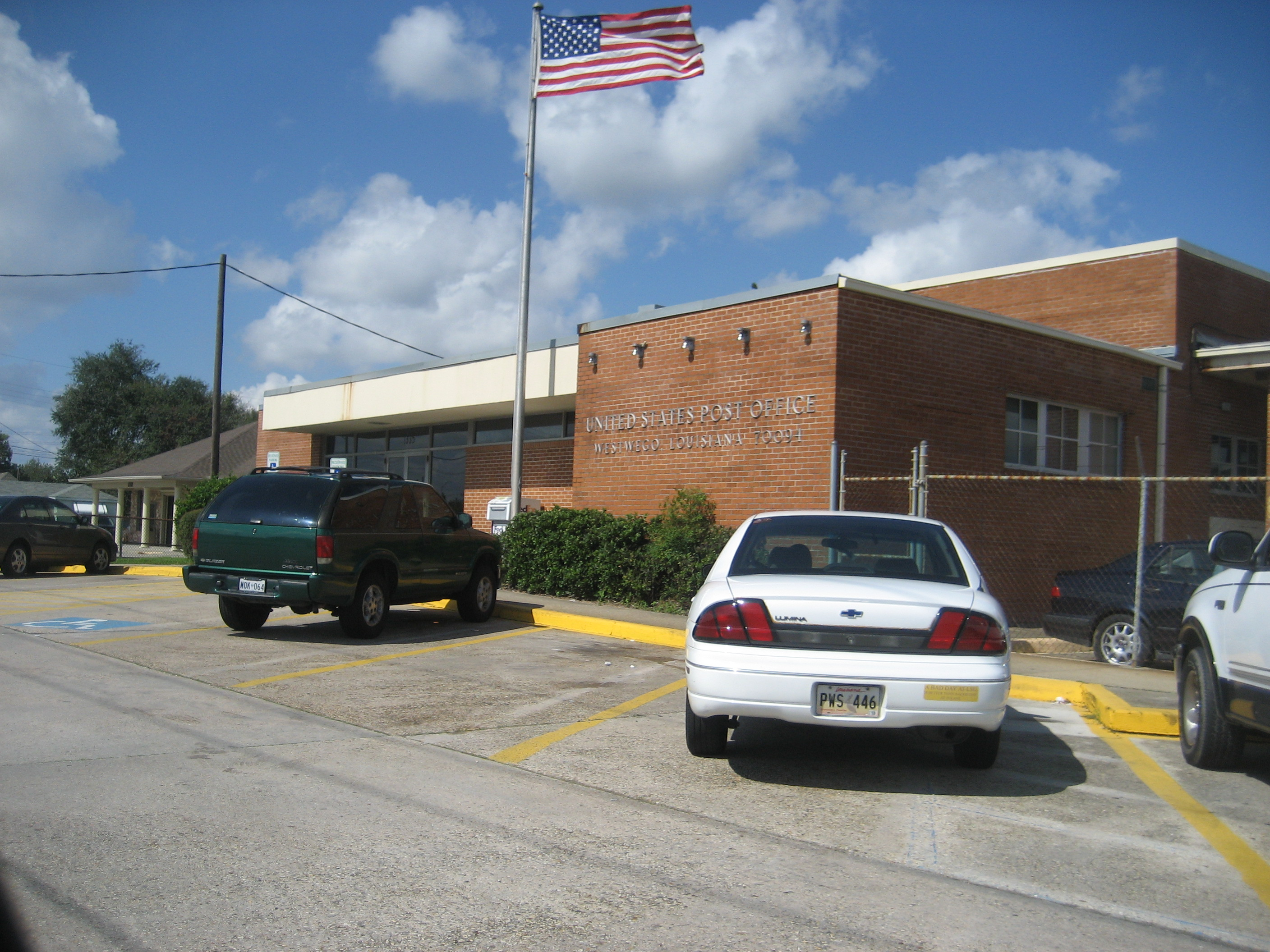 Post office, Westwego, Louisiana.